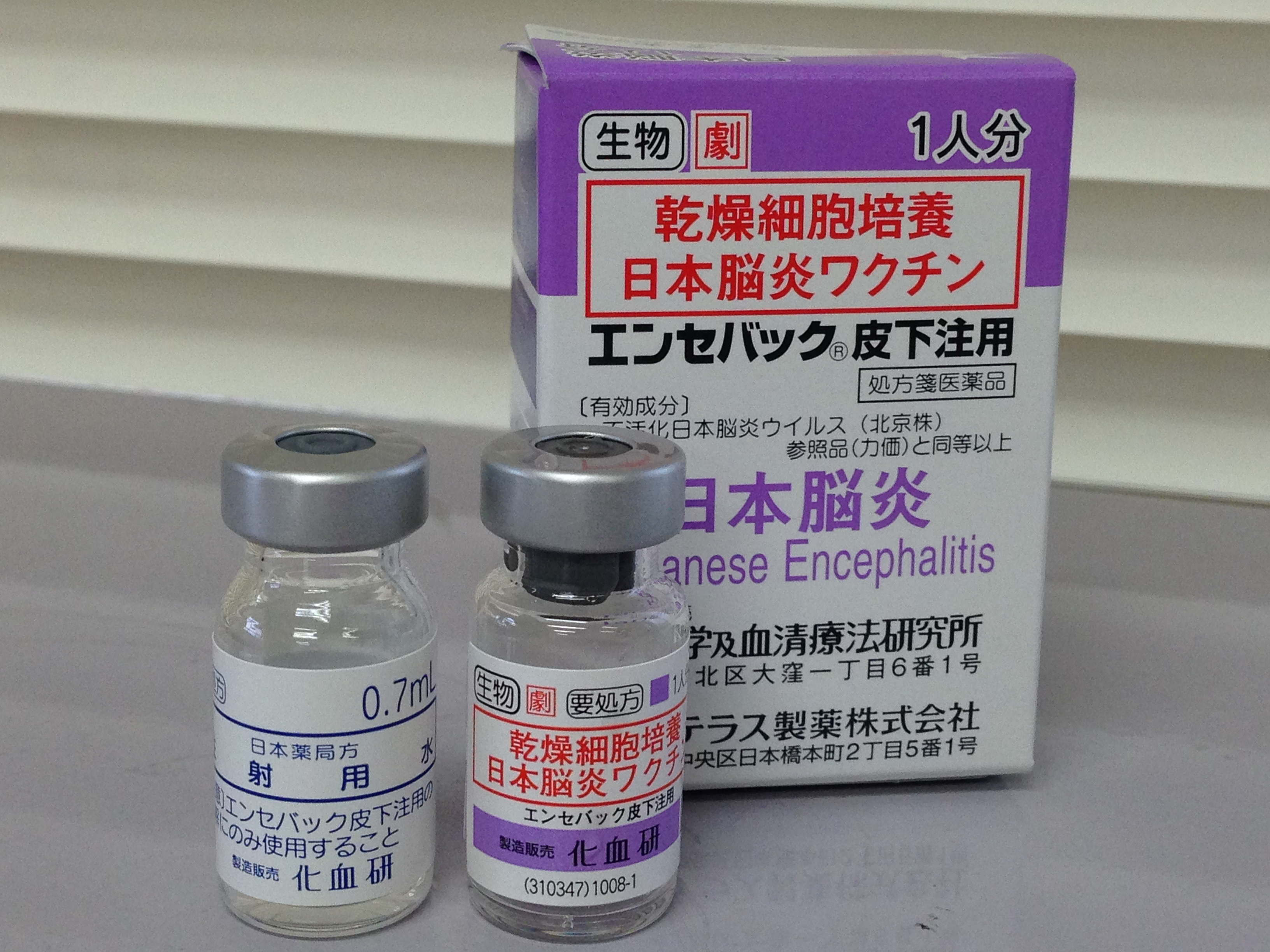 Japanese encephalitis vaccine "ENCEVAC" 2016 JAPAN